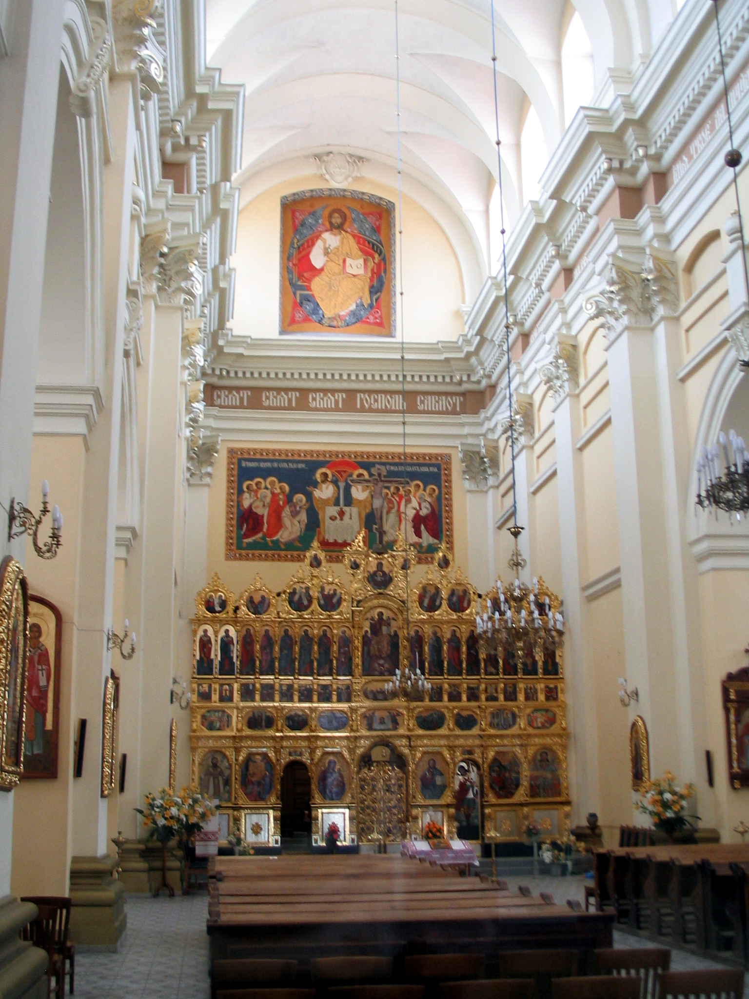 Greek Catholic Cathedral in Przemyśl, Poland.